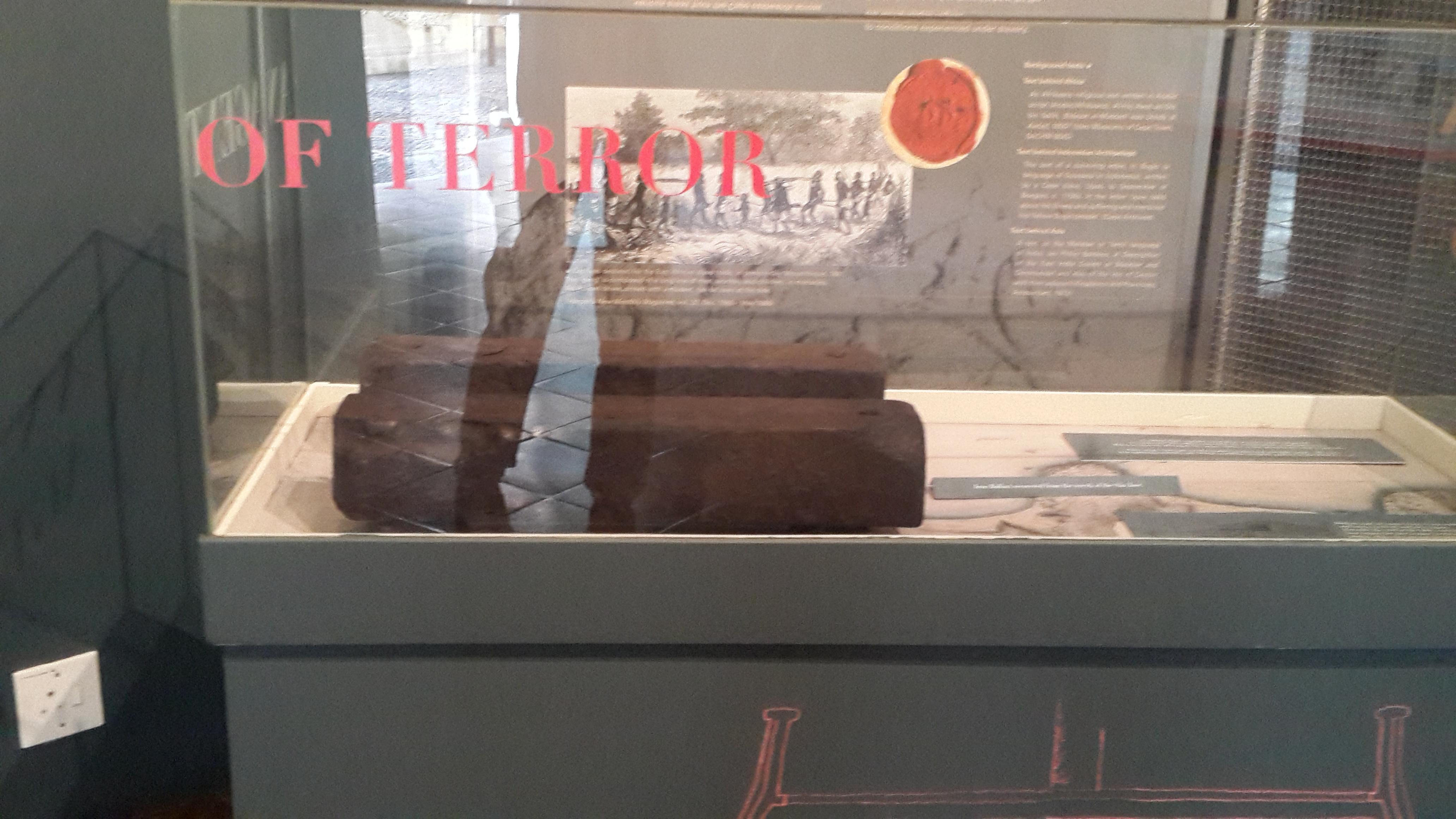 Iron ballasts, Sao Parquete Africa. Slave Lodge, Cape Town